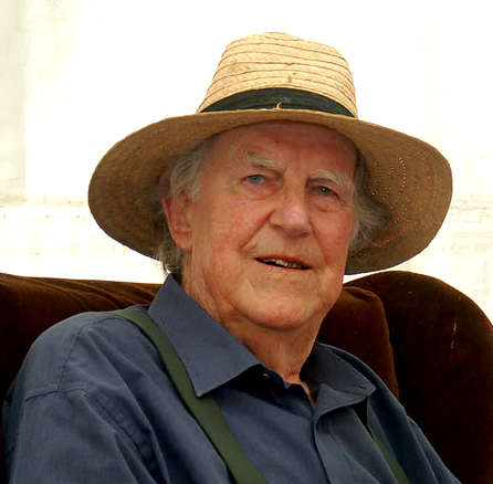 Graeme Mulholland uploaded this 2006-01-28 photo of Sir Edmund Hillary on Flickr and gave permission for it to be used under this license. A Flickr email from the photographer (Graeme Mulholland) to me on 3rd March 2007 ran "Hi there, Feel free to take and crop the photo of tiffany and Sir Edmund Hillary. Thanks for asking before just ripping it off! I may have a slightly higher res copy if thats not big enough. Just let me know. Cheers". Andeggs (talk) 13:59, 16 January 2008 (UTC) Graeme Mulholland (the photographer) has now kindly updated this photo on Flickr to Creative Commons Share-Alike Generic. This should mean there is no need to delete it. The only thing required to bring the photo up to its license is a credit to Graeme Mulholland underneath the photo. I took this photo and gave permission for it to be released for use on Wikipedia. I can be contacted on if further verification is required.